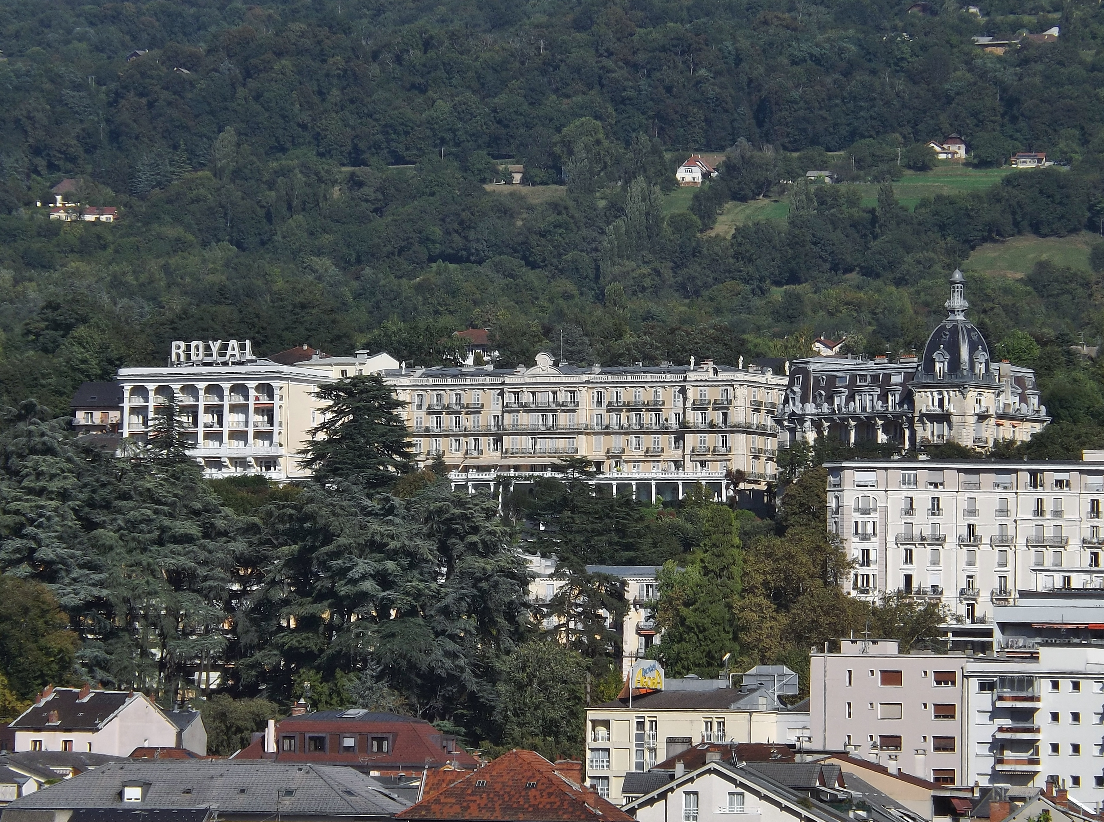 Sight of the three palaces Rossignoli palaces, previous Hôtel Royal, Hôtel Splendide and Hôtel Excelsior palaces, on the heights of Aix-les-Bains, in Savoie, France.